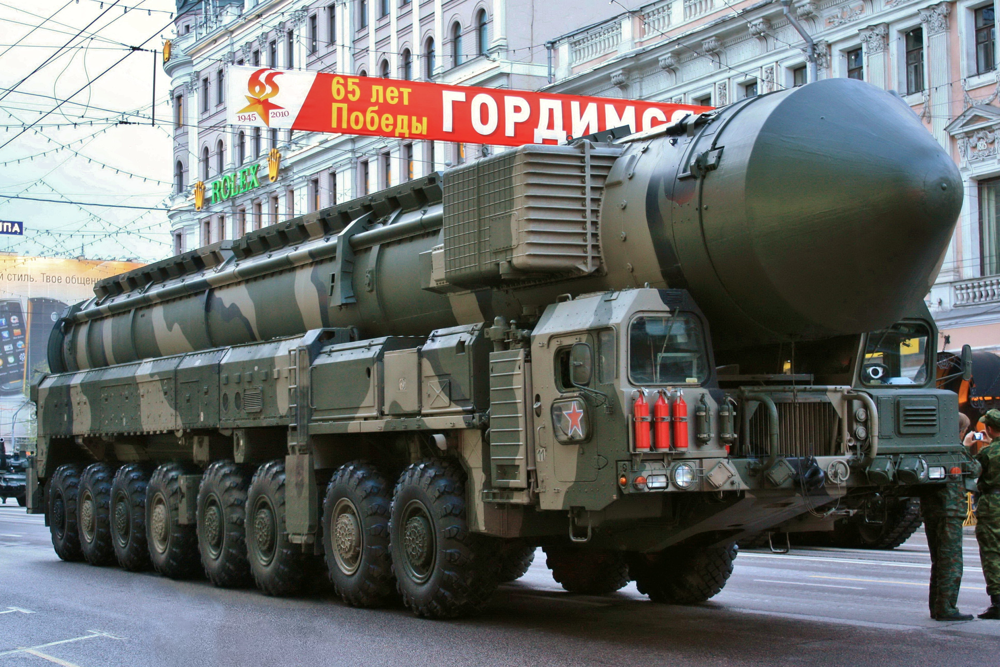 Topol-M (or RS-24 Yars [1]) at Red Square during Parade repetition in Moscow.